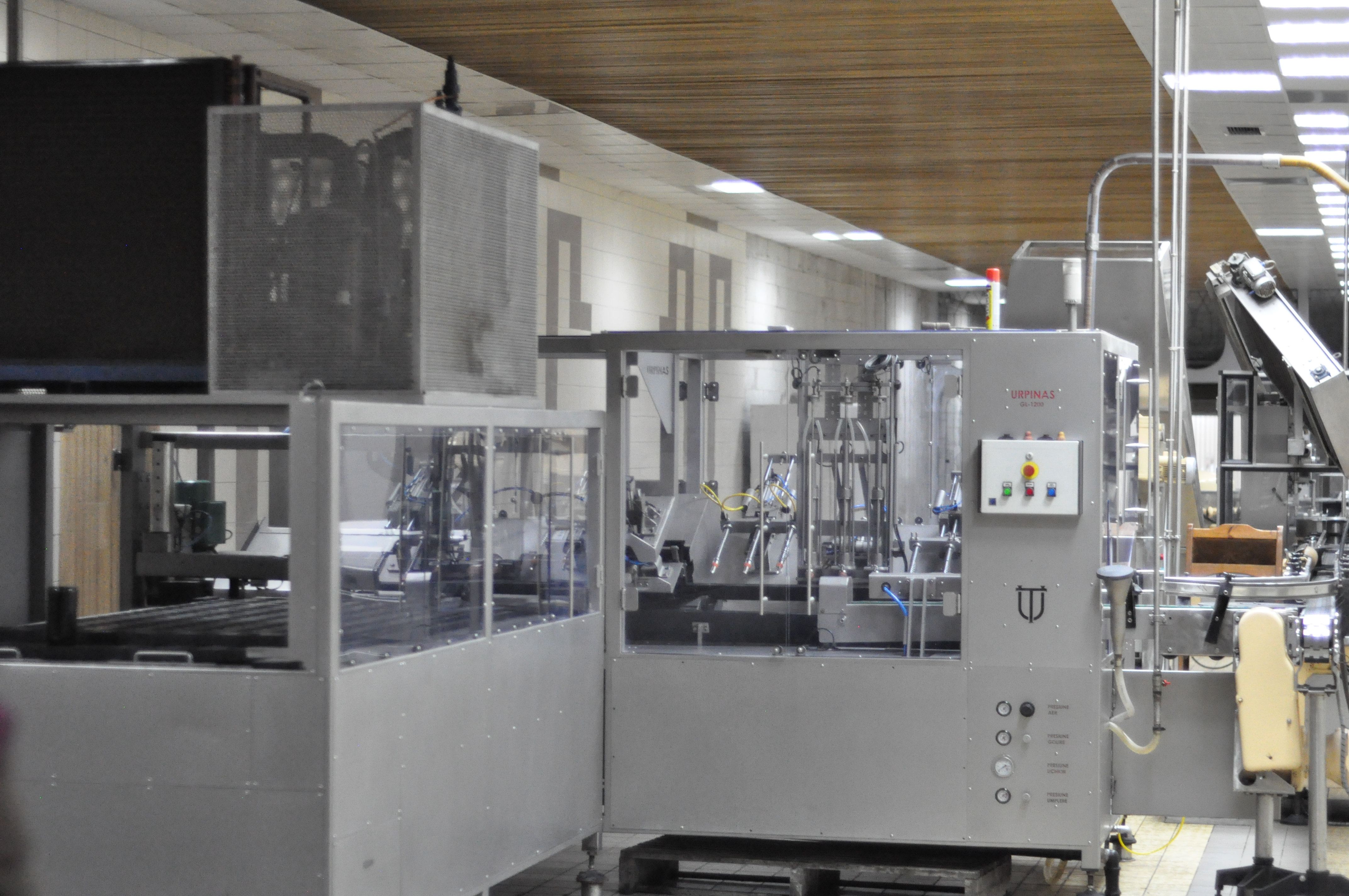 Champagne-making machine in Chișinău, Moldova